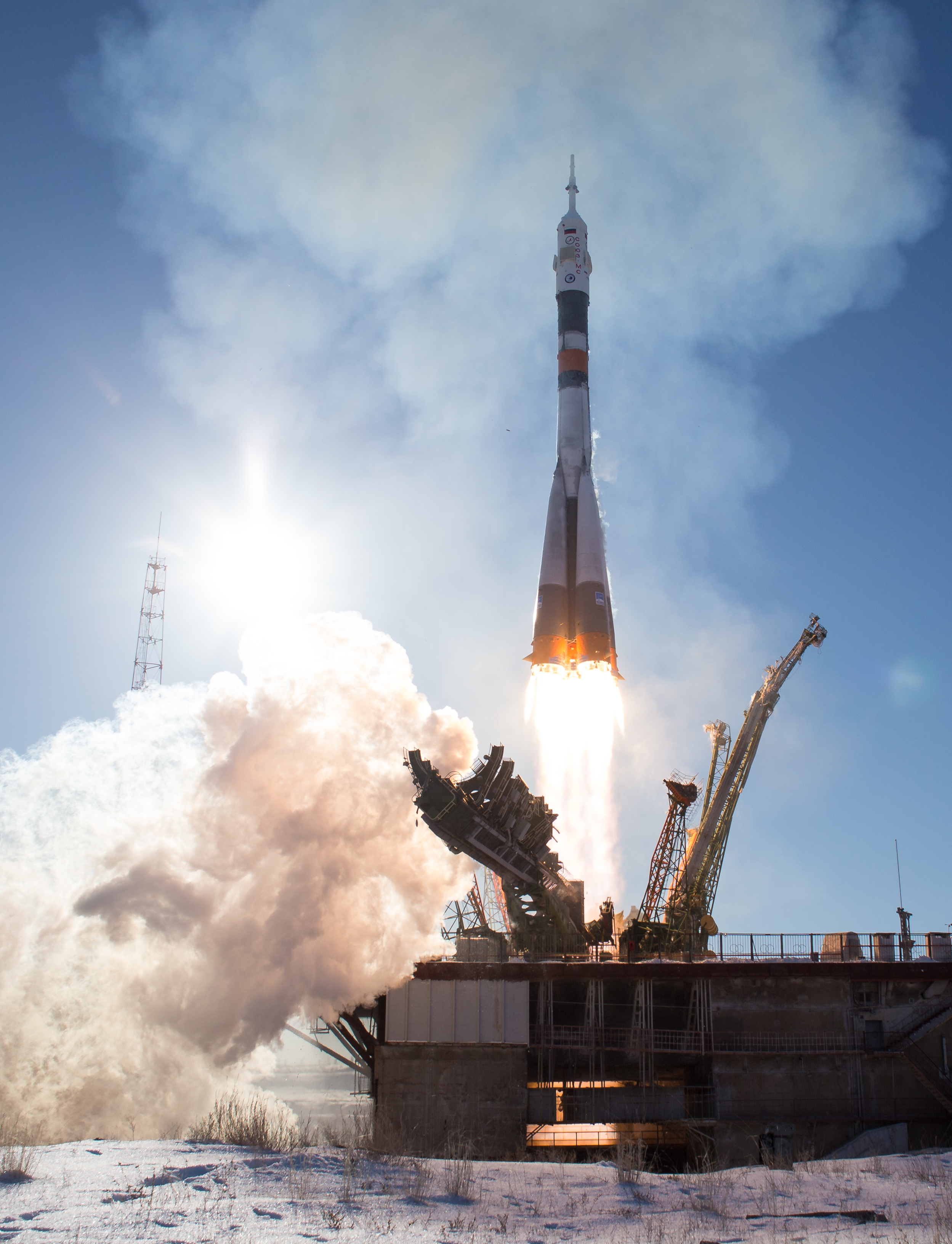 The Soyuz MS-07 rocket is launched with Expedition 54 Soyuz Commander Anton Shkaplerov of Roscosmos, flight engineer Scott Tingle of NASA, and flight engineer Norishige Kanai of Japan Aerospace Exploration Agency (JAXA), Sunday, Dec. 17, 2017 at the Baikonur Cosmodrome in Kazakhstan. Shkaplerov, Tingle, and Kanai will spend the next five months living and working aboard the International Space Station. Photo Credit: (NASA/Joel Kowsky)